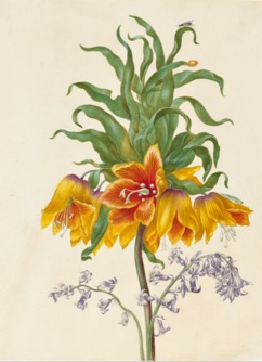 Watercolor painting color of Crown imperial (Fritillaria imperialis), two bluebells (Scilla non-scripta), and insects by Johanna Helena Herolt. The original work is located at the Oak Spring Garden Foundation in Upperville, Virginia.